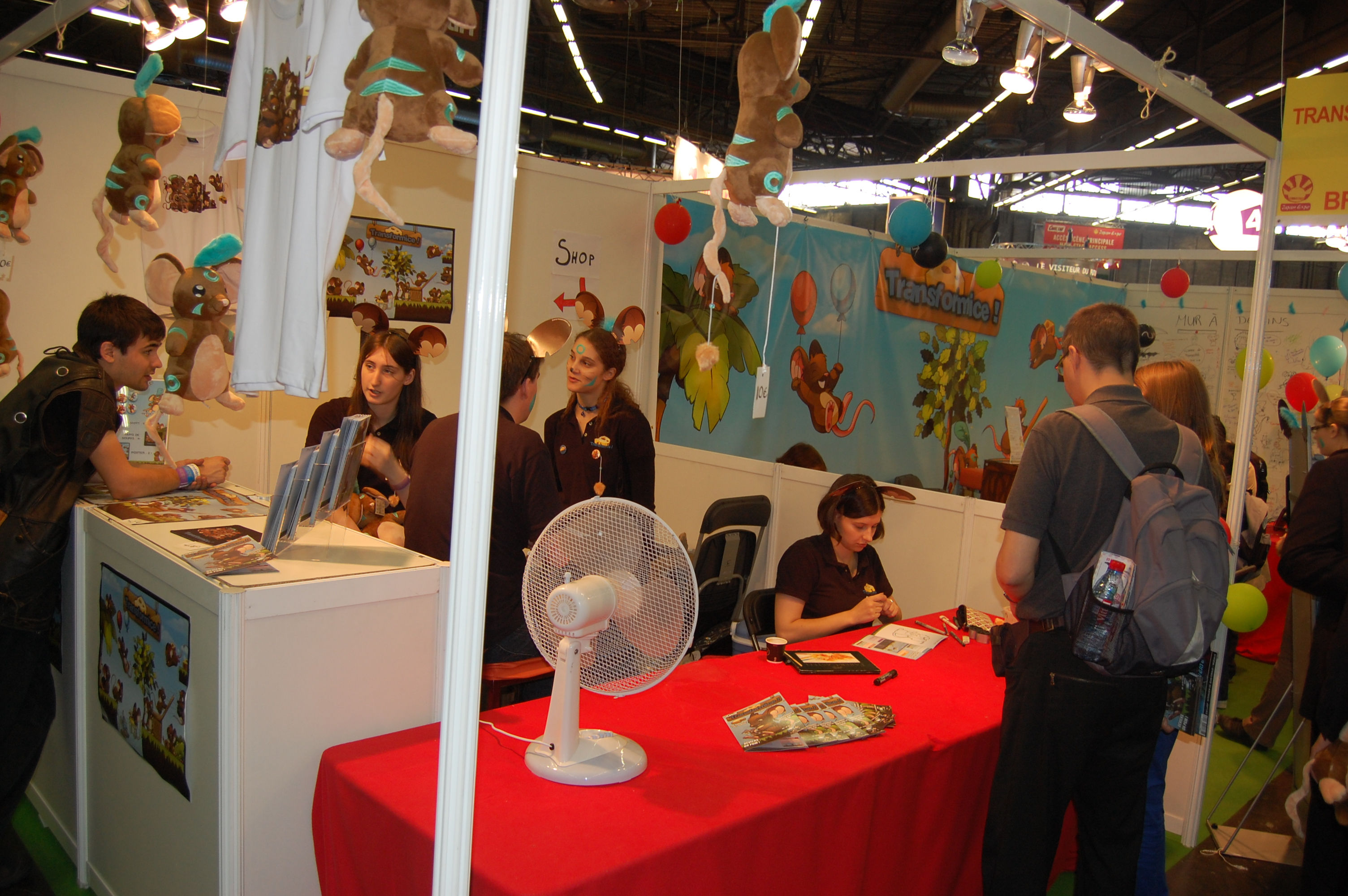 Transformice stand - Japan Expo 2012